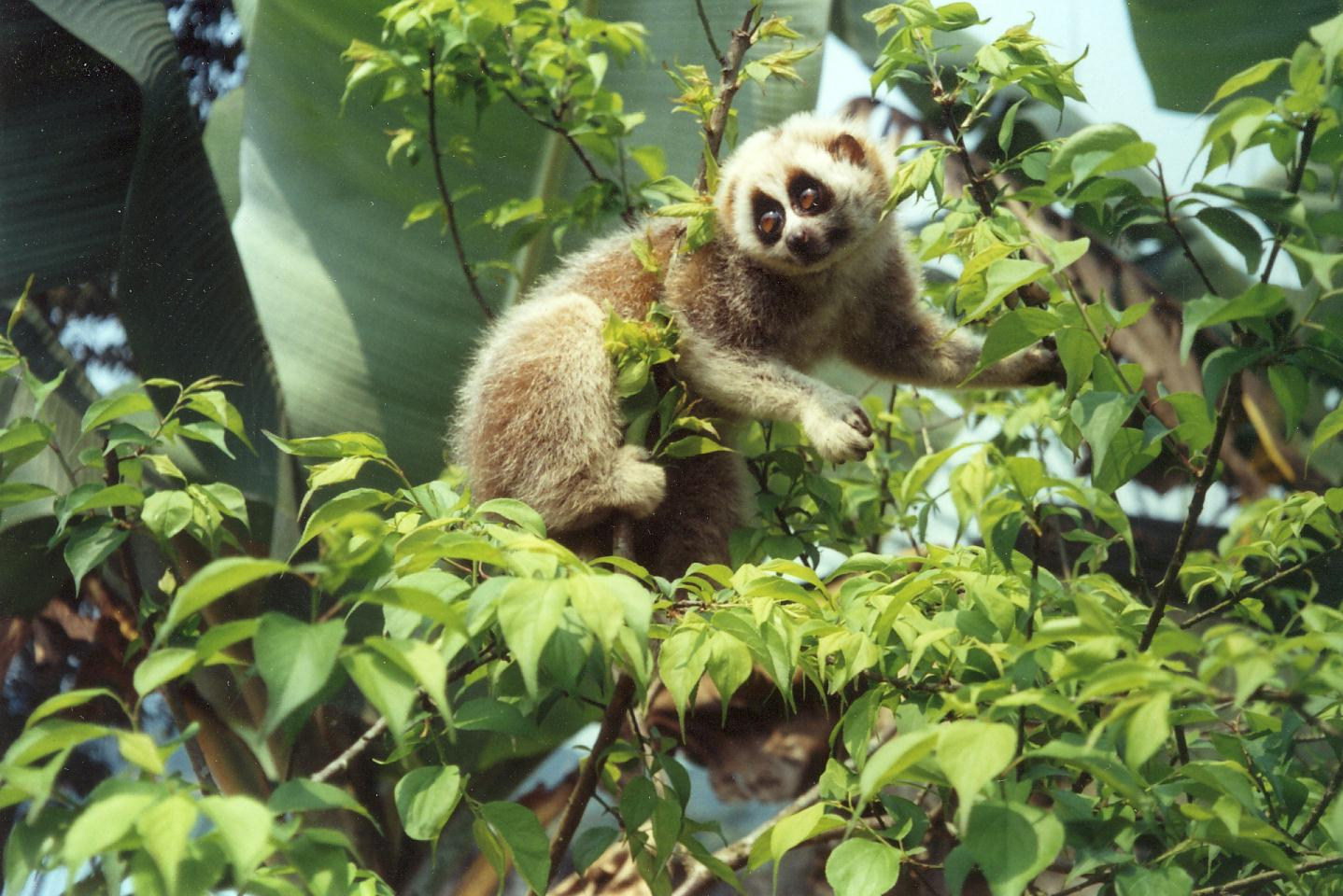 Juvenile Nycticebus bengalensis from Ben En National Park in Vietnam